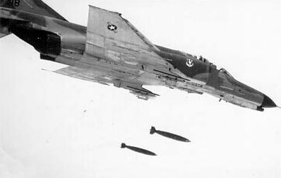 A U.S. Air Force McDonnell Douglas F-4E-35-MC (S/N 67-0318) in flight dropping bombs. Due to the leading edge slats fitted to the F-4E this photo was taken after the mid-1970s.